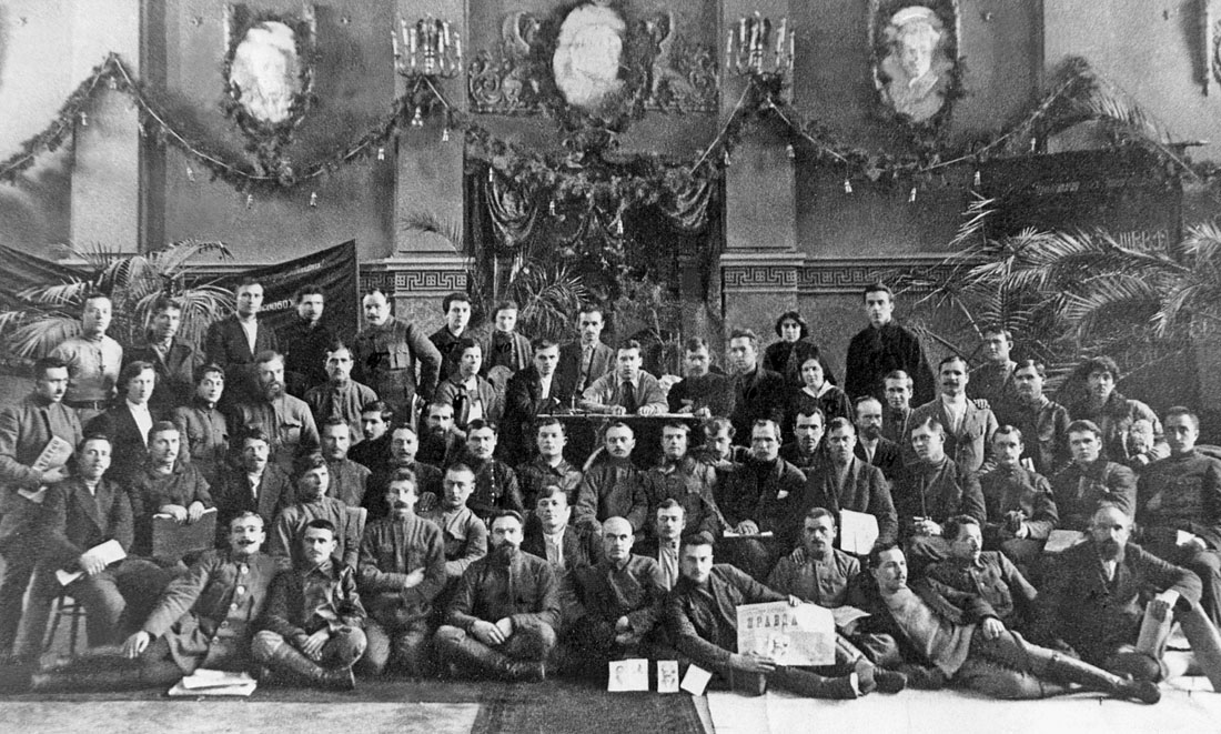 Самарская городская партийная конференция после освобождения г. Самары от белочехов. 3—6 декабря 1918 г.